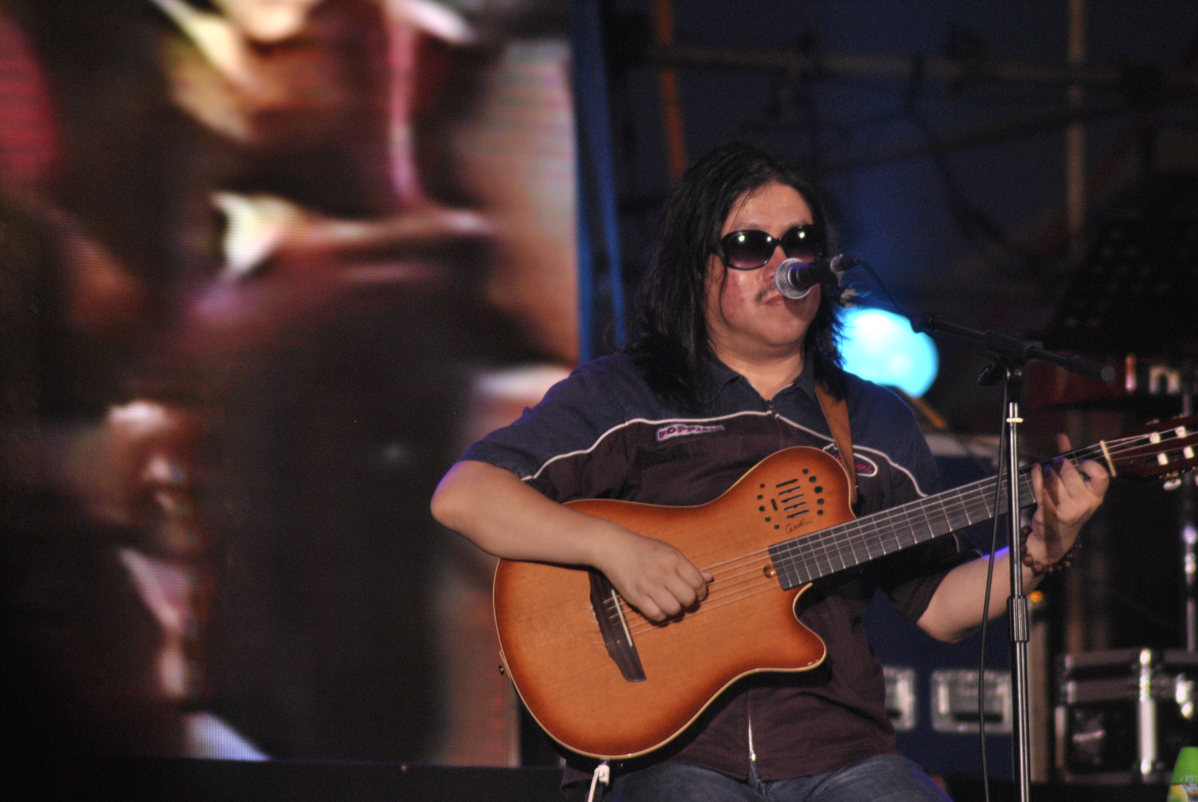 Zhou Yunpeng，a singer and poet of Chinese mainland.The picture was photoed in Changsha Orange isle international music festival.